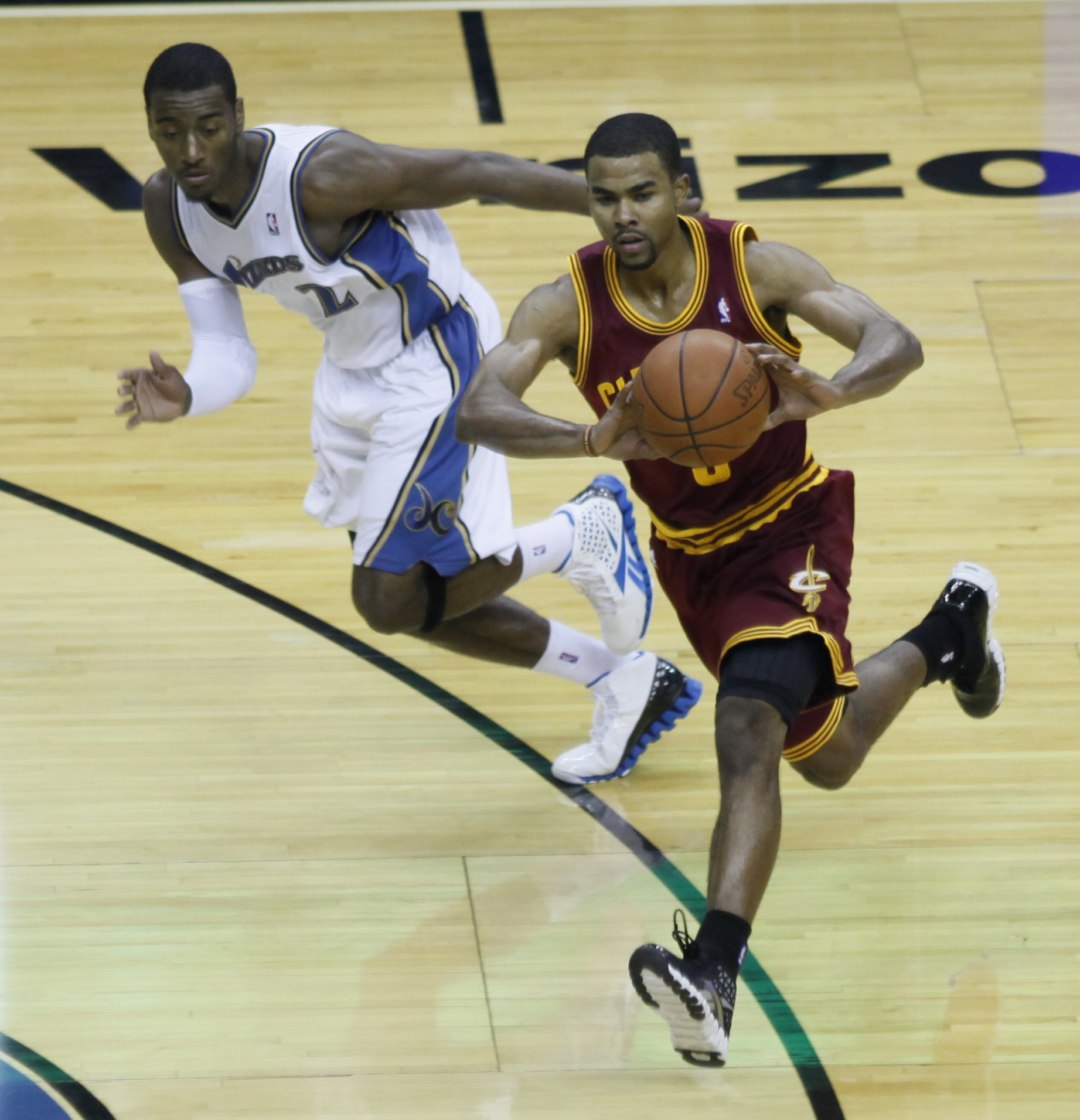 Washington Wizards v/s Cleveland Cavaliers November 6, 2010